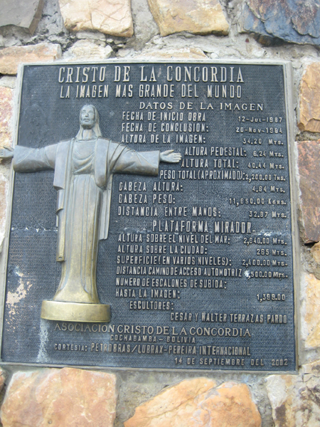 I took this photo myself on trip to Cochabamba, Bolivia, in April of 2009.